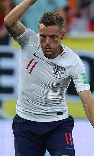 Jamie Vardy playing for England against Belgium at the 2018 FIFA World Cup